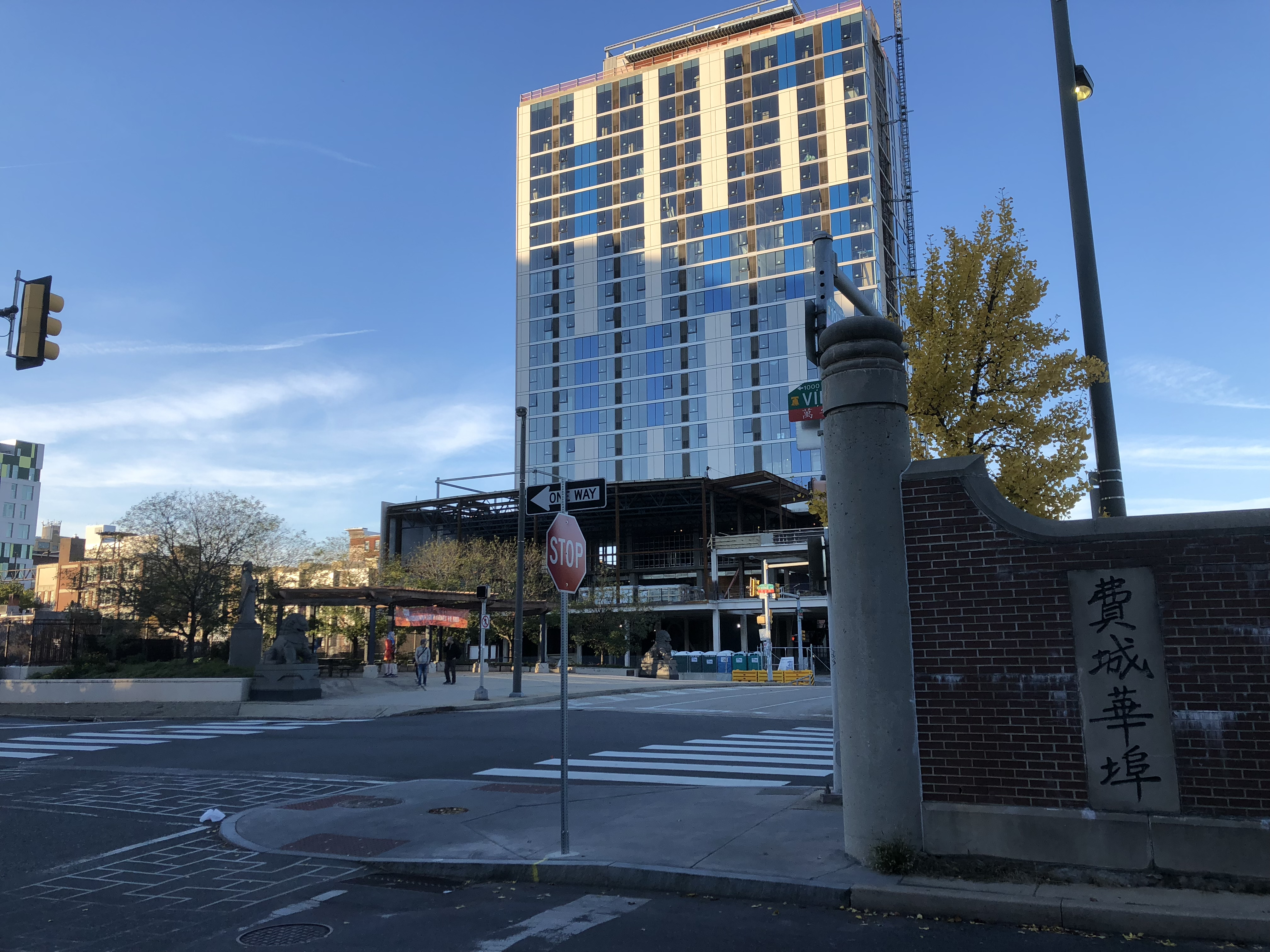 Eastern Tower Chinatown project